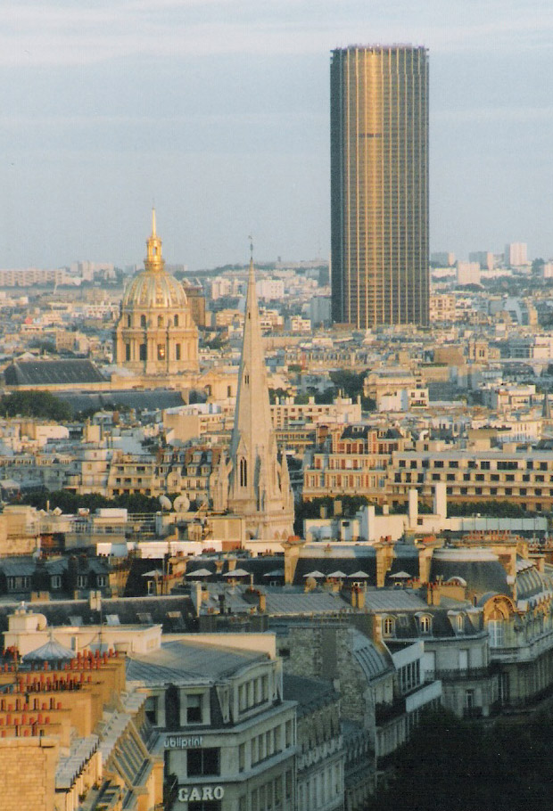 View on the Montparnasse Tower from the Arc de Triomphe, Paris, France.